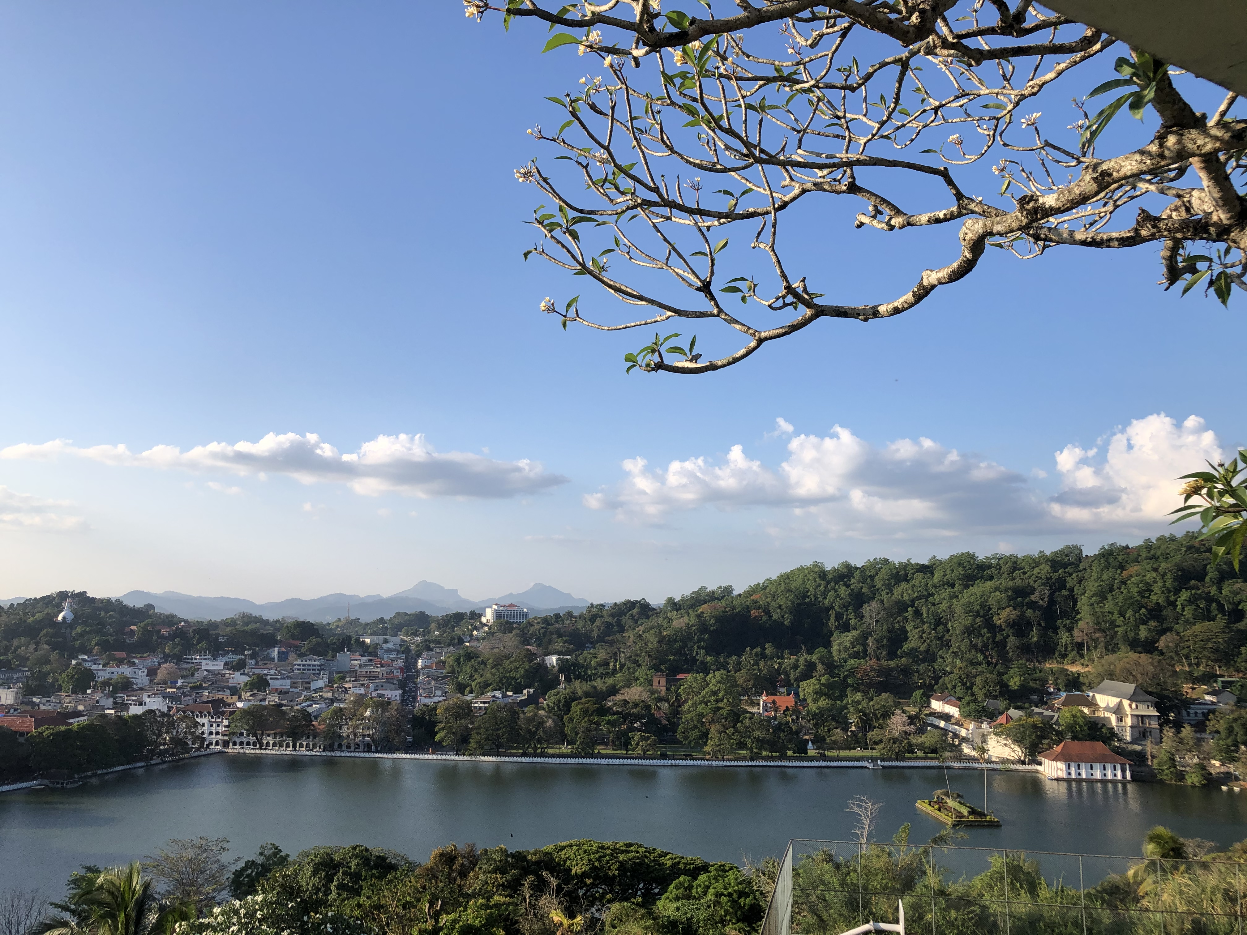 The beautiful Kandy, Shri lanka